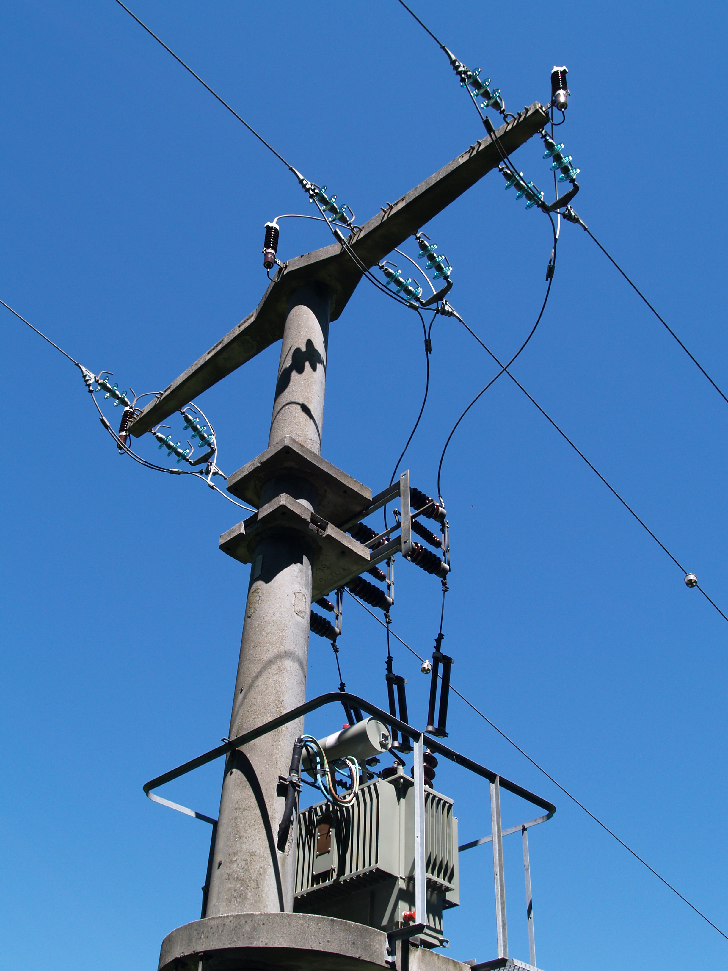 German middle voltage mast with transformer station